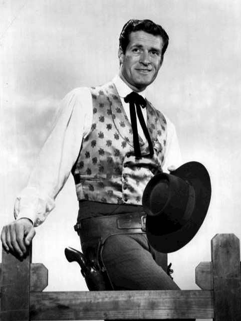 Photo of Hugh O'Brian as Wyatt Earp from the television program The Life and Legend of Wyatt Earp.